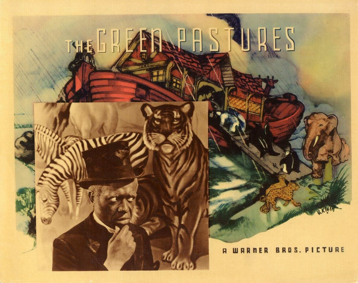 Lobby card for the 1936 film The Green Pastures. Eddie "Rochester" Anderson is shown in his film role of Noah.